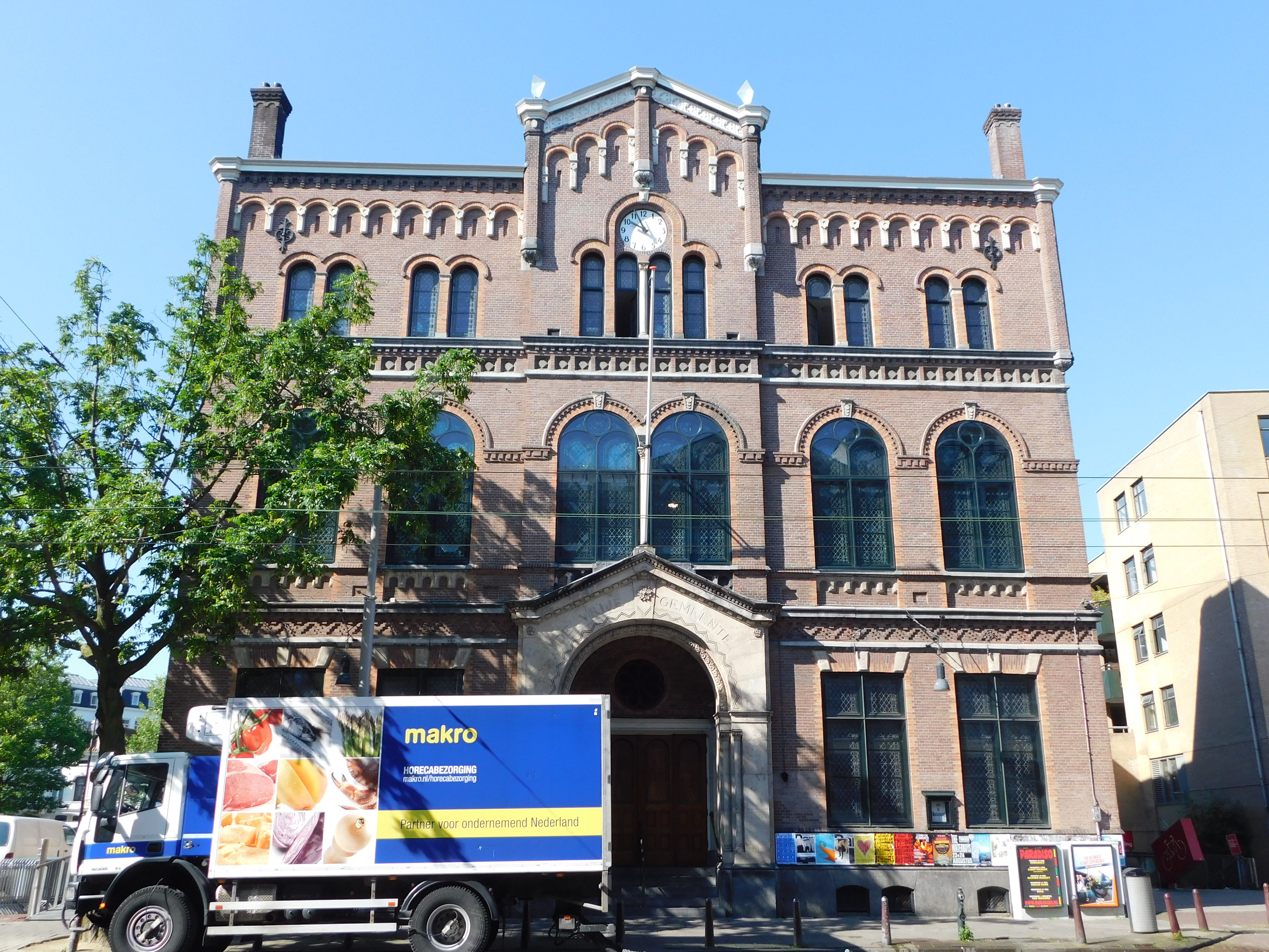 Paradiso Amsterdam